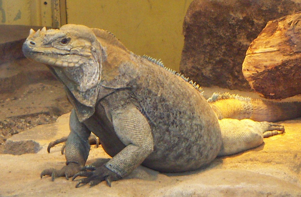 cyclura cornuta (Nashornleguan) in the zoo of Münster (Westphalia, Germany)